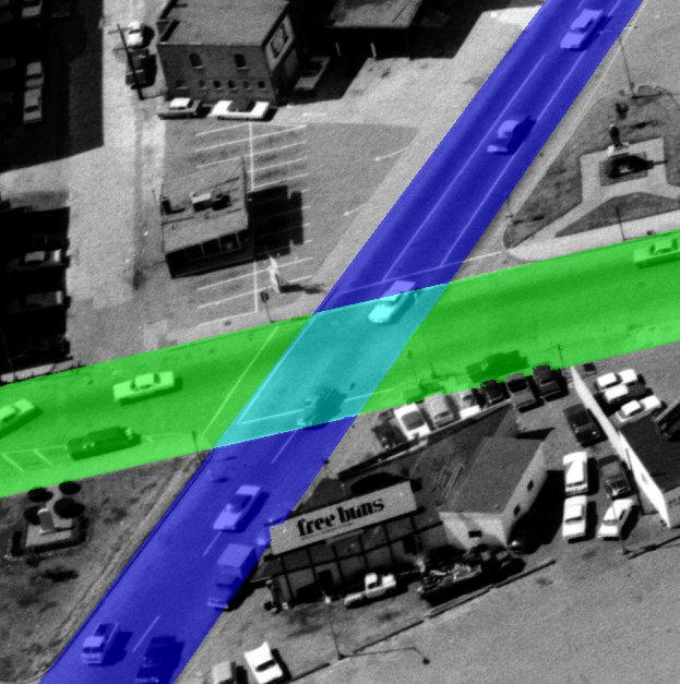 Considering a road to correspond to the set of all its locations, a road intersection of two roads corresponds to the intersection of their sets. The picture is a 1968 aerial photograph of the road intersection (colored in cyan) between Plymouth Avenue (blue) and Pleasant Street (green) in Durfee Mills.